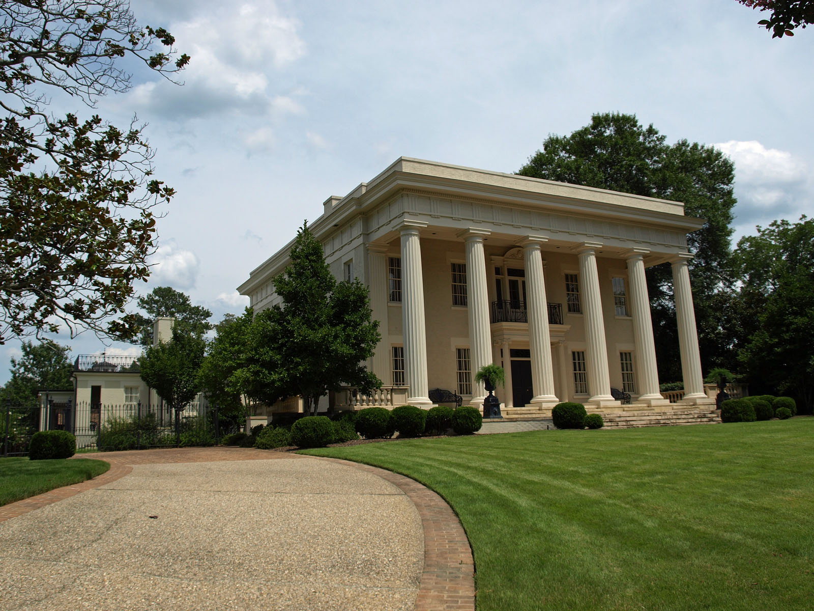 1919 South Hull Street in Montgomery, Alabama, part of the Garden District.